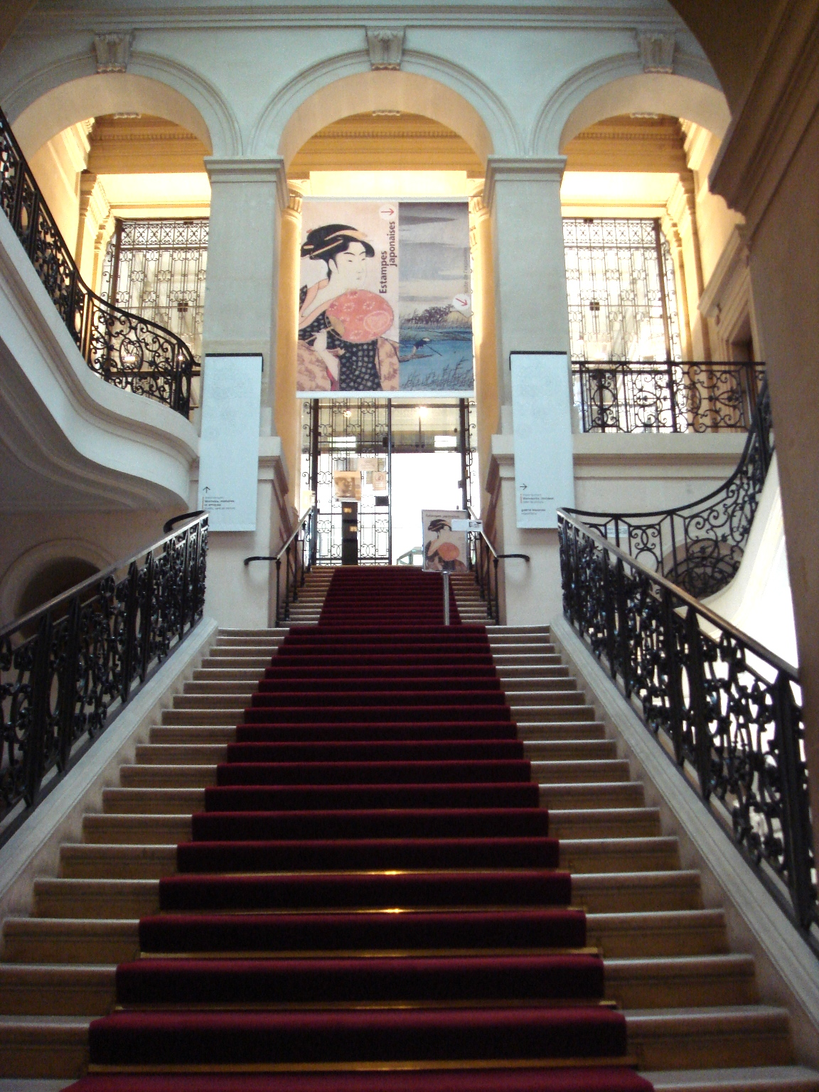 Cabinet_des_Medailles, Bibliotheque Nationale, Rue de Richelieu, Paris